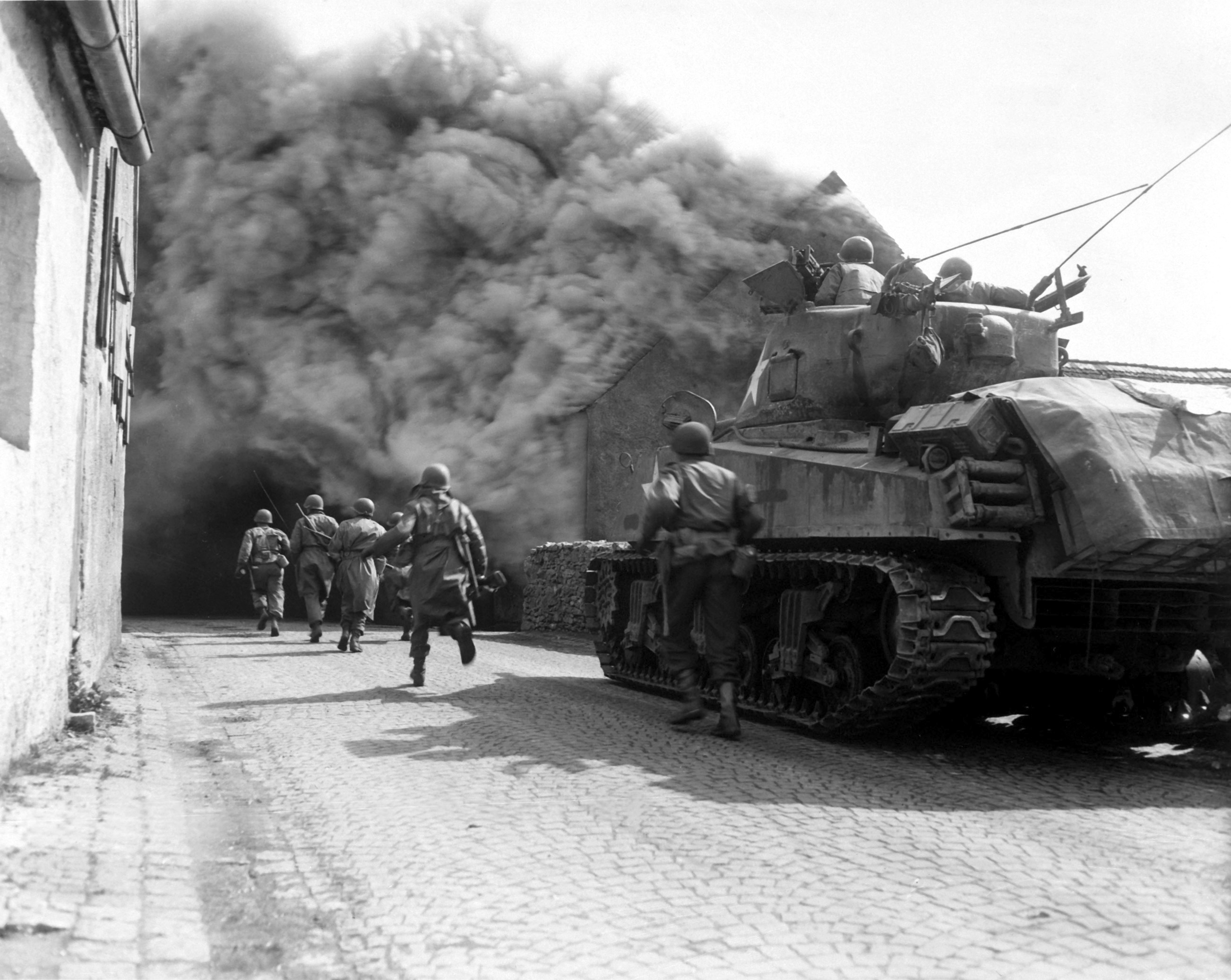 Soldiers of the 55th Armored Infantry Battalion and tank of the 22nd Tank Battalion, 11 Armored Division, move through smoke filled street. Wernberg, Germany.